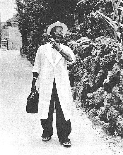 Kaiho(Medical Service Man) circa 1960